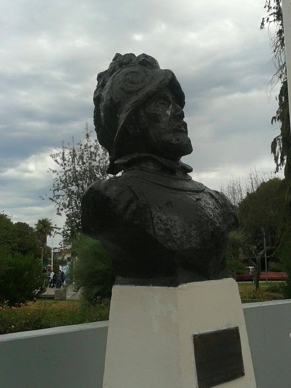 Busto de Martín Ruiz de Gamboa en Plaza de Castro, Chiloé.